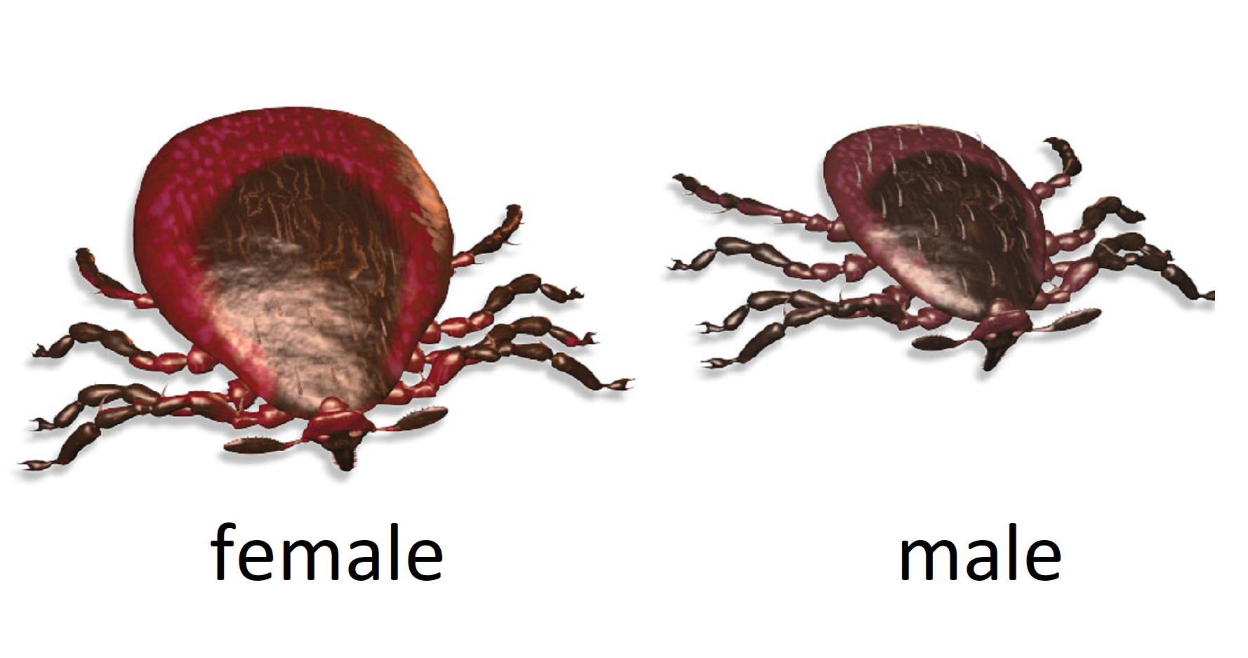 Deer Ticks